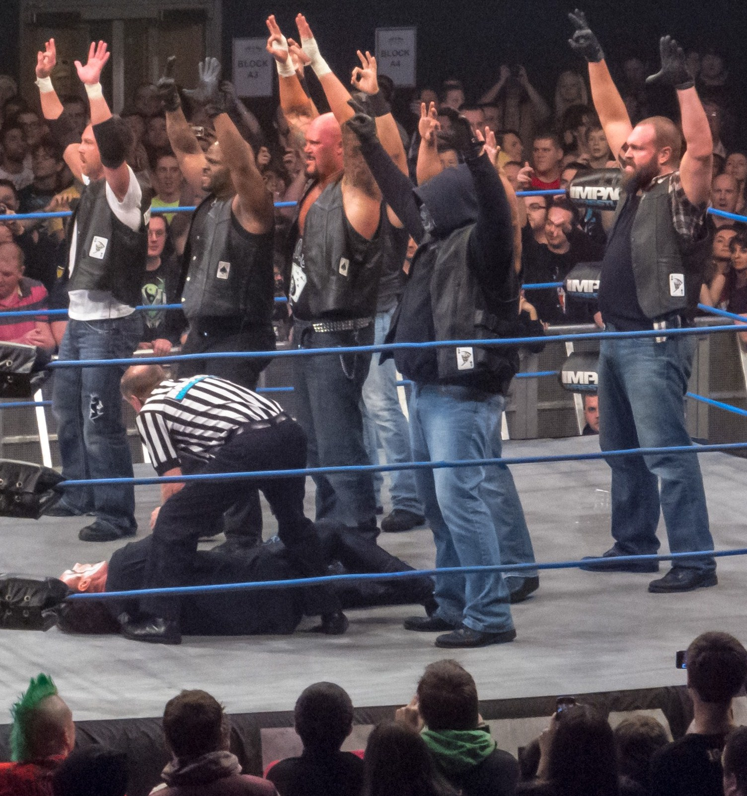 Aces & Eights at the Impact! TV Tapings in Wembley, England on January 26, 2013.